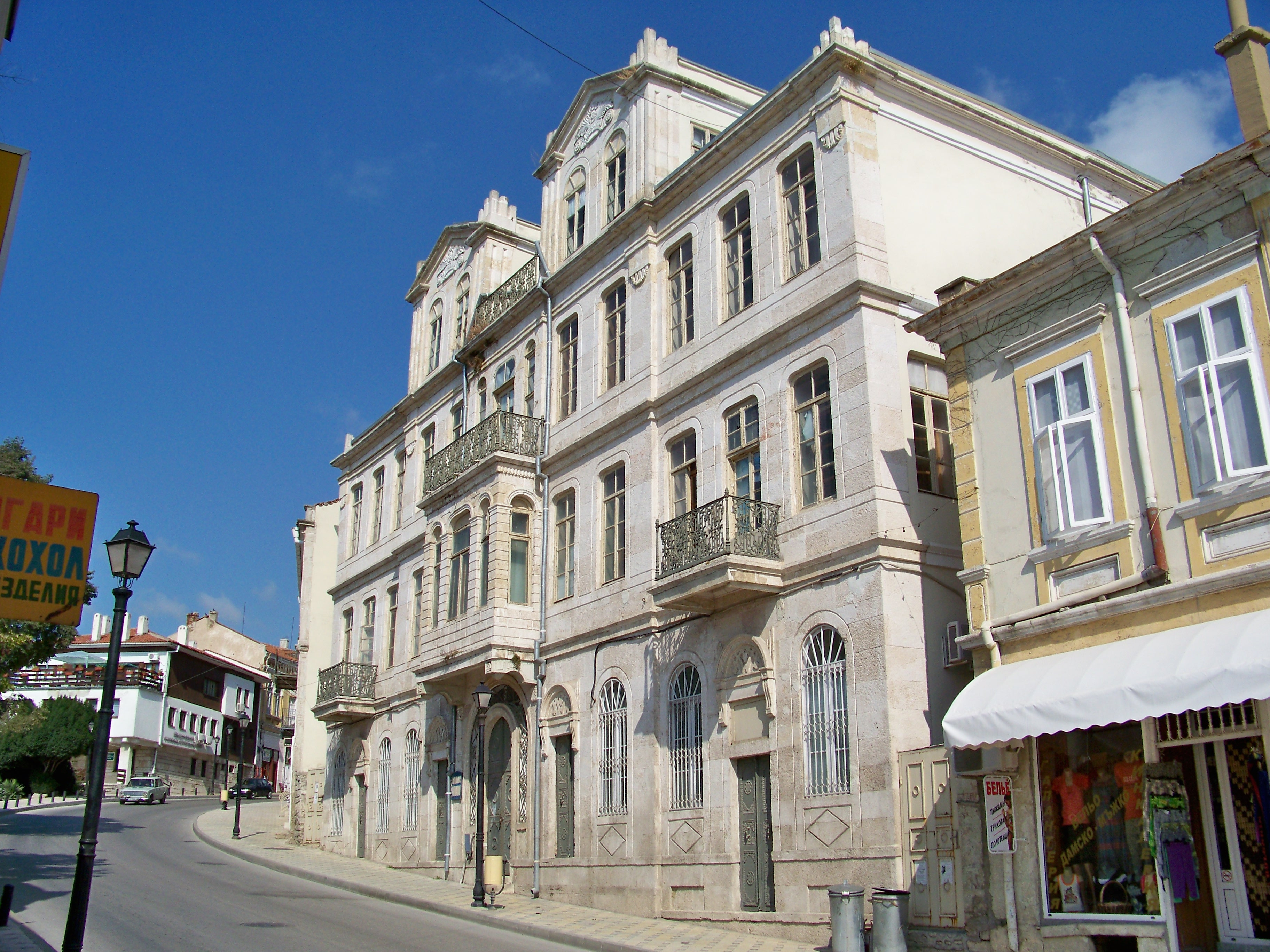 Is a Black Sea coastal town and seaside resort in the Southern Dobruja area of northeastern Bulgaria.